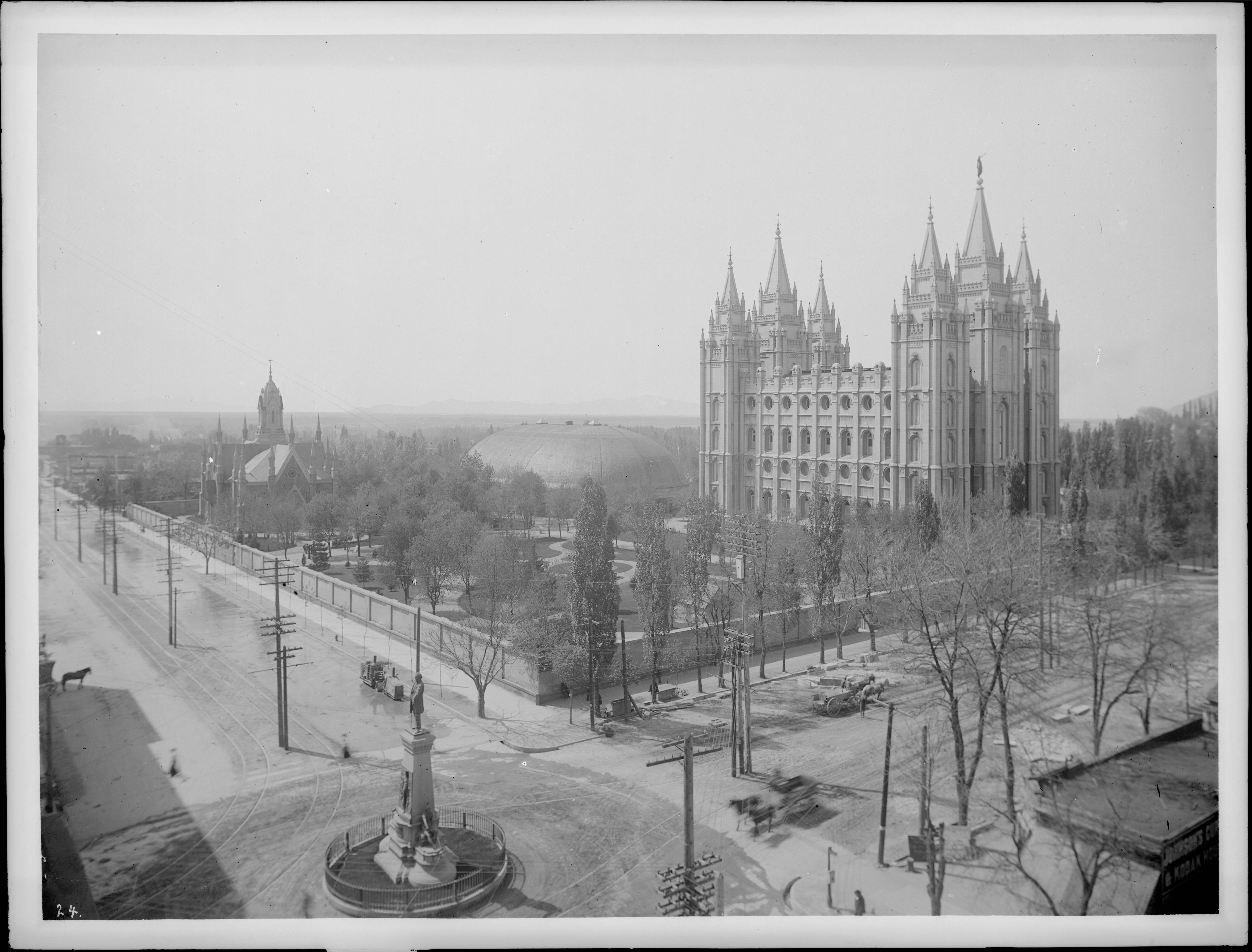 Salt Lake City in winter, ca.1905 Photograph of Salt Lake City, Utah, in winter, ca.1905. A bird's eye view. Visible are: Salt Lake Temple, Tabernacle and Assembly Hall are behind tall wall. Brigham Young Monument in middle of intersection. Several horse-drawn vehicles are on the streets adjacent to Temple Square. Trees and utility poles and lines march up the middle of intersecting streets. Walkways and trees can be seen inside the perimeter. Many of the trees have lost their leaves. Call number: CHS-24 Filename: CHS-24 Coverage date: circa 1905 Part of collection: California Historical Society Collection, 1860-1960 Format: glass plate negatives Type: images Part of subcollection: Title Insurance and Trust, and C.C. Pierce Photography Collection, 1860-1960 Repository name: USC Libraries Special Collections Accession number: 24 Archival file: chs_Volume89/CHS-24.tiff Geographic subject (city or populated place): Salt Lake City Repository address: Doheny Memorial Library, Los Angeles, CA 90089-0189 Geographic subject (country): USA Format (aacr2): 2 photographs : glass photonegative, photoprint, b&w ; 17 x 22 cm. Rights: Digitally reproduced by the USC Digital Library; From the California Historical Society Collection at the University of Southern California Subject (adlf): religious facilities Repository Contributing entity: California Historical Society Date created: circa 1905 Publisher (of the digital version): University of Southern California. Libraries Format (aat): photographic prints; photographs Geographic subject (state): Utah Subject (file heading): Utah Legacy record ID: chs-m14211; USC-1-1-1-14069 Access conditions: Send requests to address or e-mail given. Phone (213) 821-2366; fax (213) 740-2343. Geographic subject (county): Salt Lake Subject (lcsh): Mormon Church